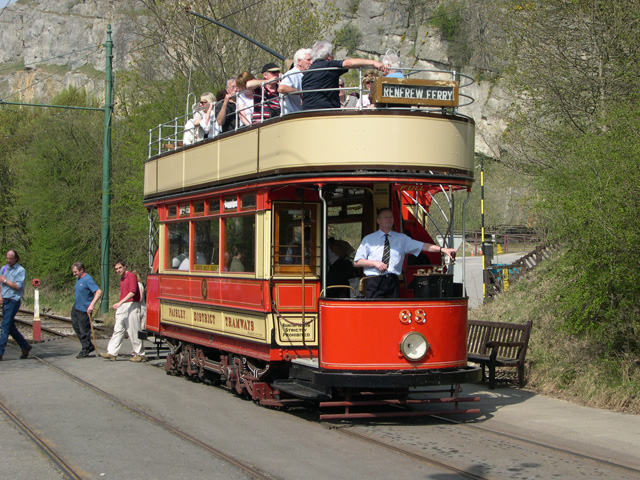 Paisley District Tram (1919) at Crich Tramway Museum, Derbyshire